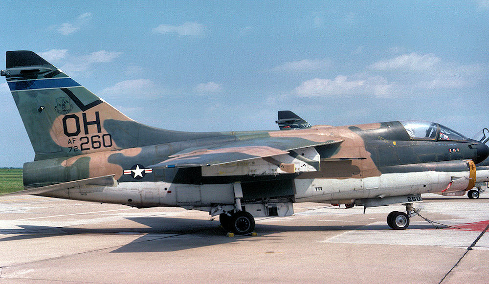 166th Tactical Fighter Squadron - Ling-Temco-Vought A-7D-13-CV Corsair II 72-260 1973: Delivered to 355th Tactical Fighter Wing/354th TFS, Davis-Monthan AFB, NV (c/n D-382) Transferred to 166th Tactical Fighter Squadron, OKH Air National Guard, 1978 Transferred to AMARC as AE0072 Nov 1, 1991 Disposition:17-APR-98 / To Fritz Enterprises, Taylor, MI. (Actually to HVF West yard, Tucson). Scrapped. 1